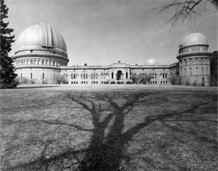 Front View, Yerkes Observatory — Williams Bay, Wisconsin.